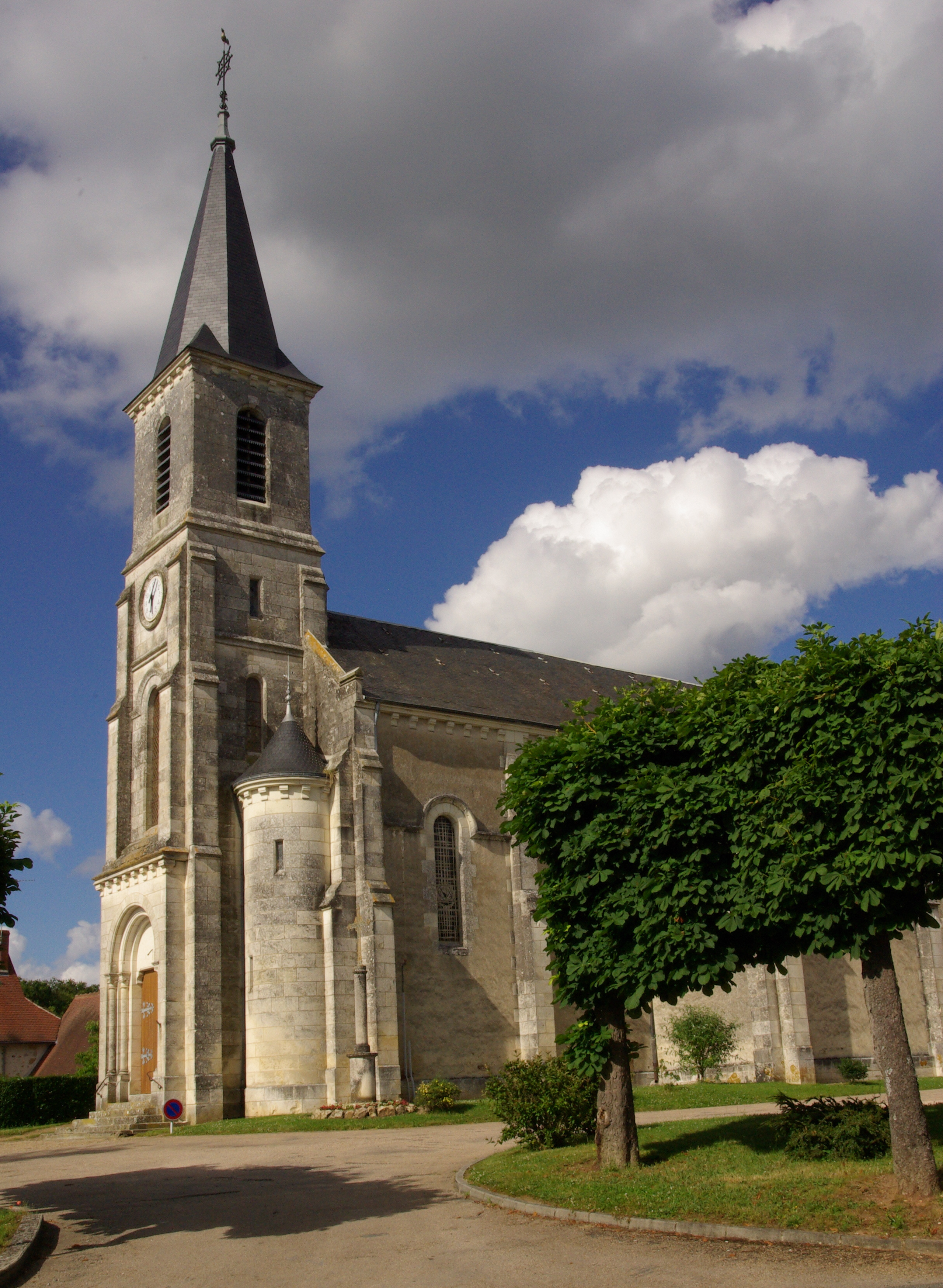 Church Saint Pierre et Saint Paul of Migné (36) Indre